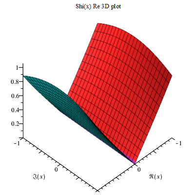 Shi(x) Re complex 3D plot